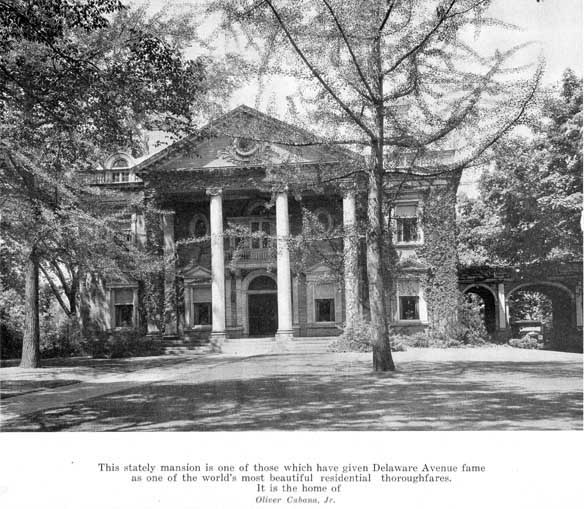 This stately mansion is one of those which have given Delaware Avenue fame as one of the world's most beautiful residential thoroughfares. It is the home of Oliver Cabana, Jr.